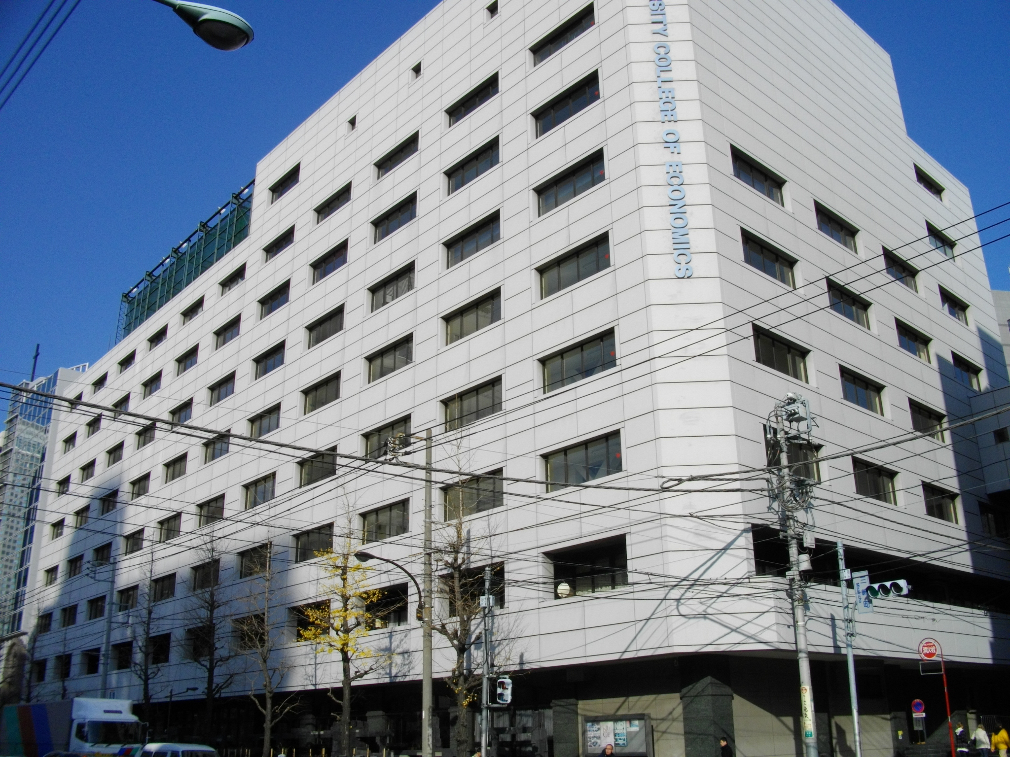 Nihon University College of Economics Main Building